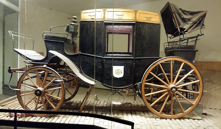 Moses Montefiore's carriage in Jerusalem